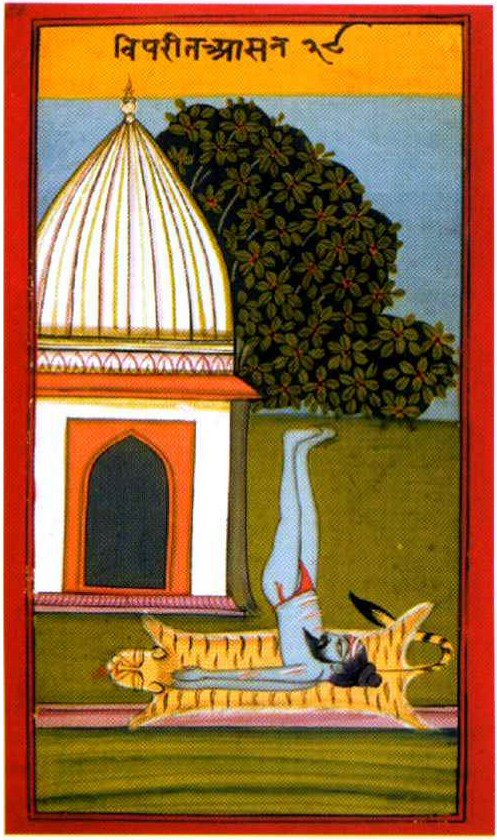 Illustration of Viparitakarana (Viparita Karani, here resembling Sarvangasana, shoulderstand) yoga pose from manuscript of, 1830.